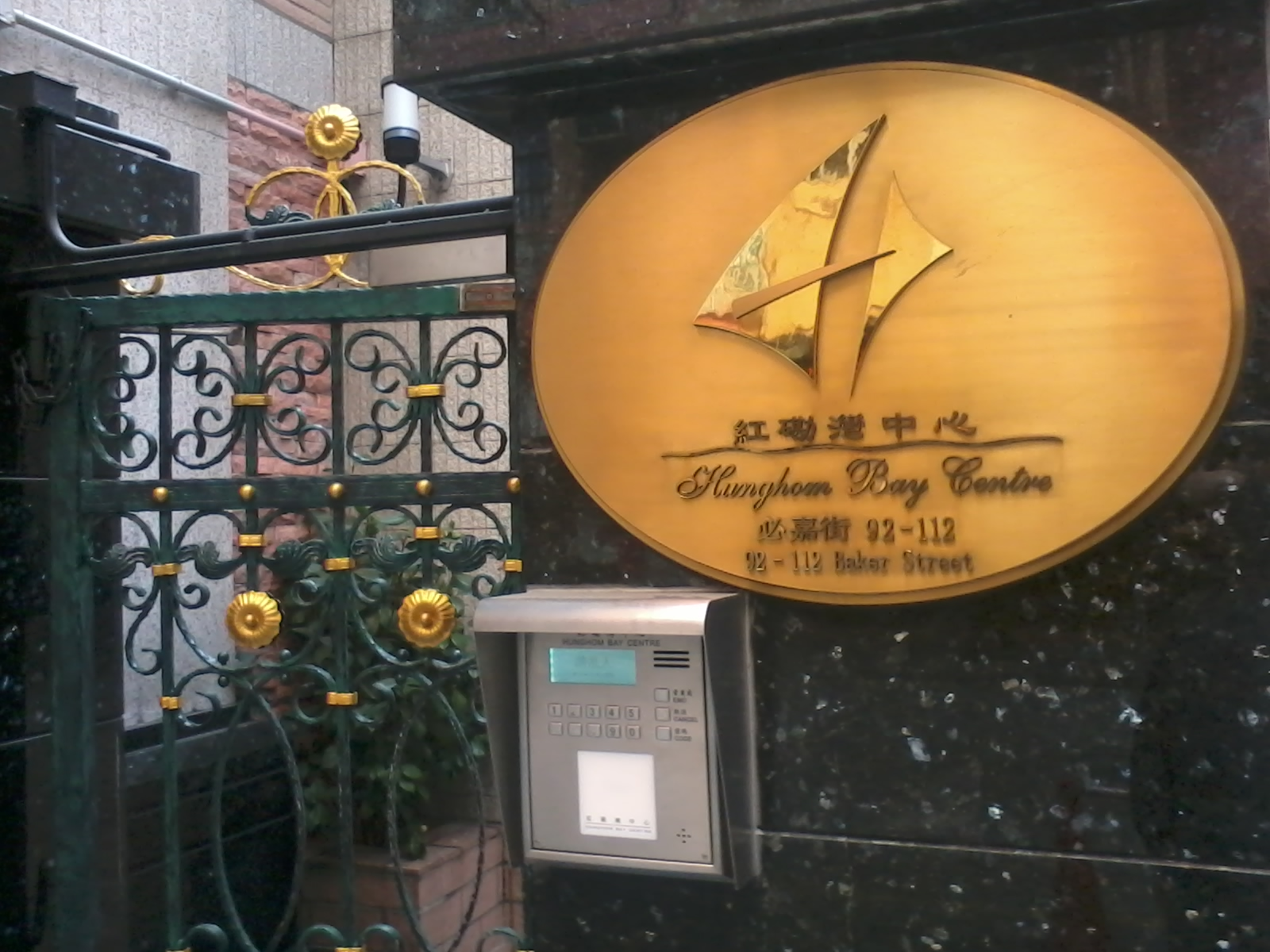 紅磡必嘉街108號 - 紅磡灣中心, Hung Hom Bay Centre, 108 Baker Street, Hung Hom, Hong Kong